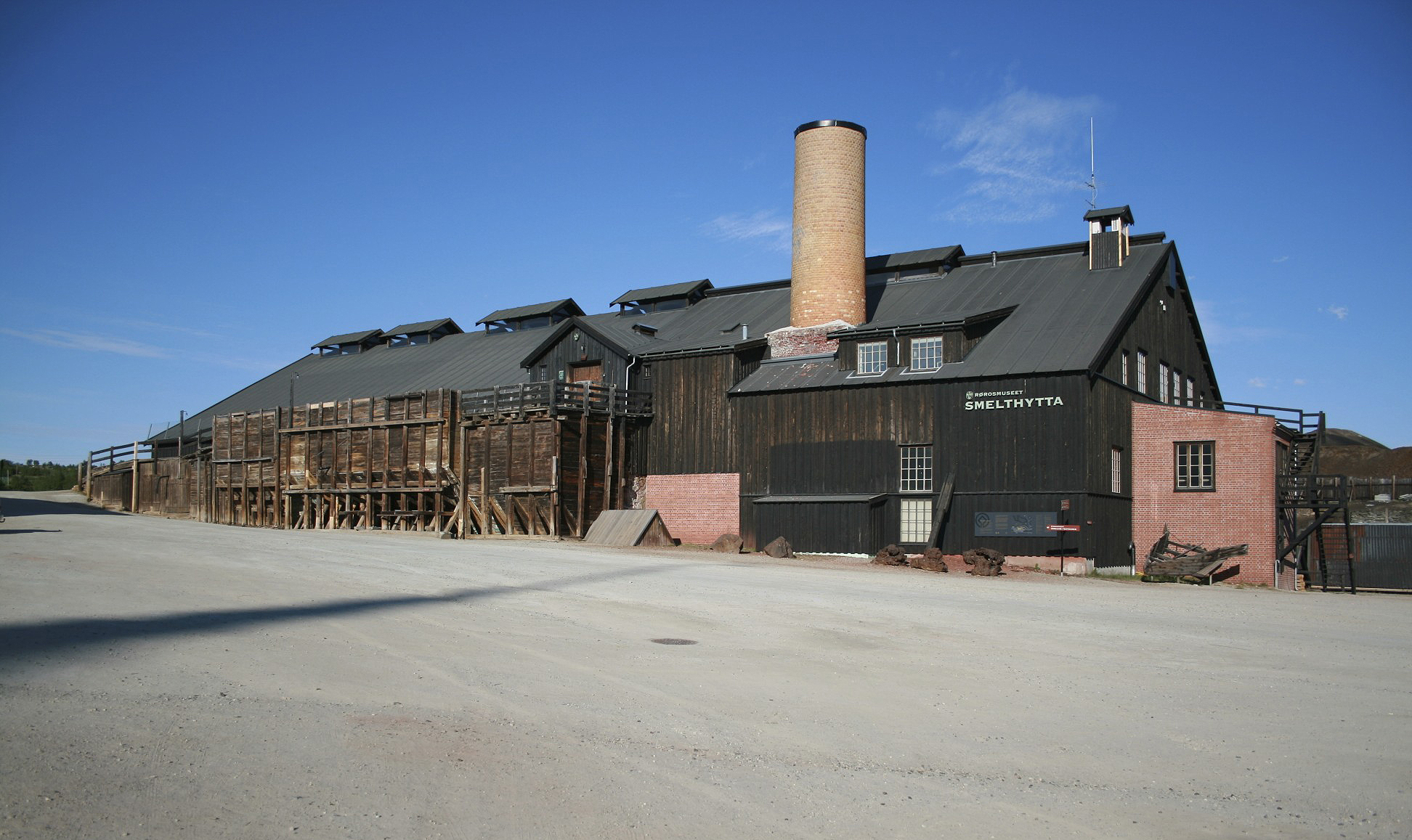 Sett fra Malmplassen. Foto: Lars Geithe, 2007